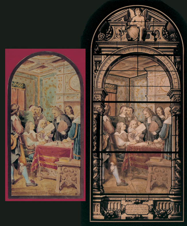 Stained glass window at the Hôpital de la Charité of Lyon. Sketch by Lebayle, finished window by Begule